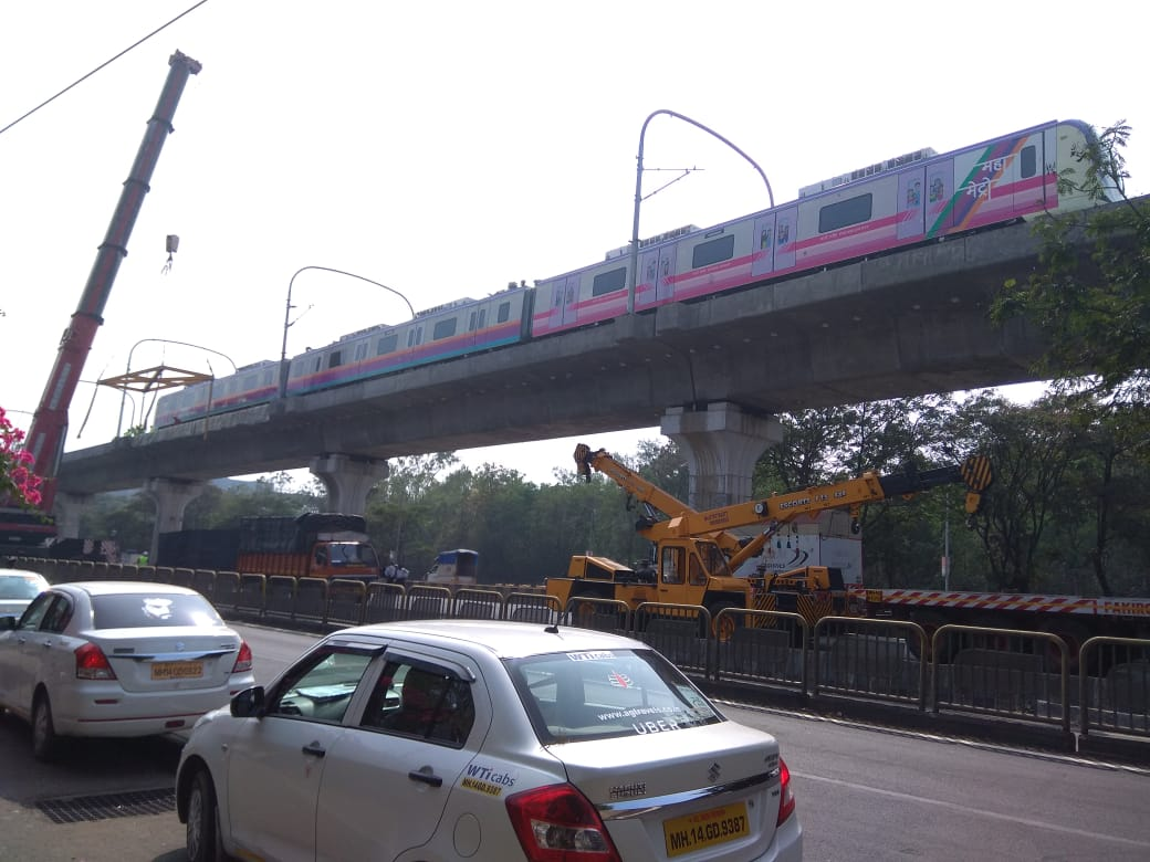 First set of coaches arrive for Pune Metro Trials on Reach 1 at Sant Tukaram Nagar